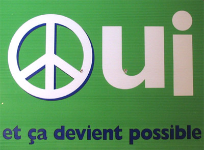 Sign for the "Yes" side in the 1995 Quebec referendum.